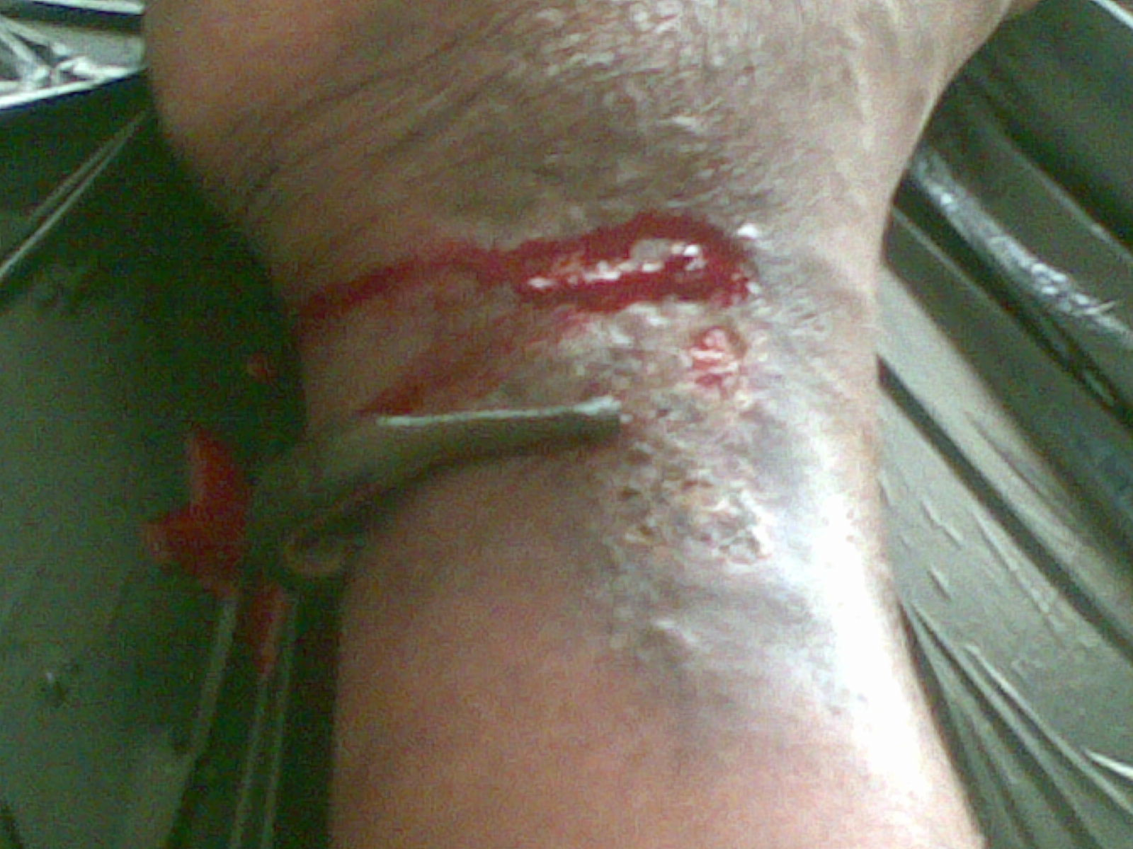 The blood clotting takes for around 5 minutes.